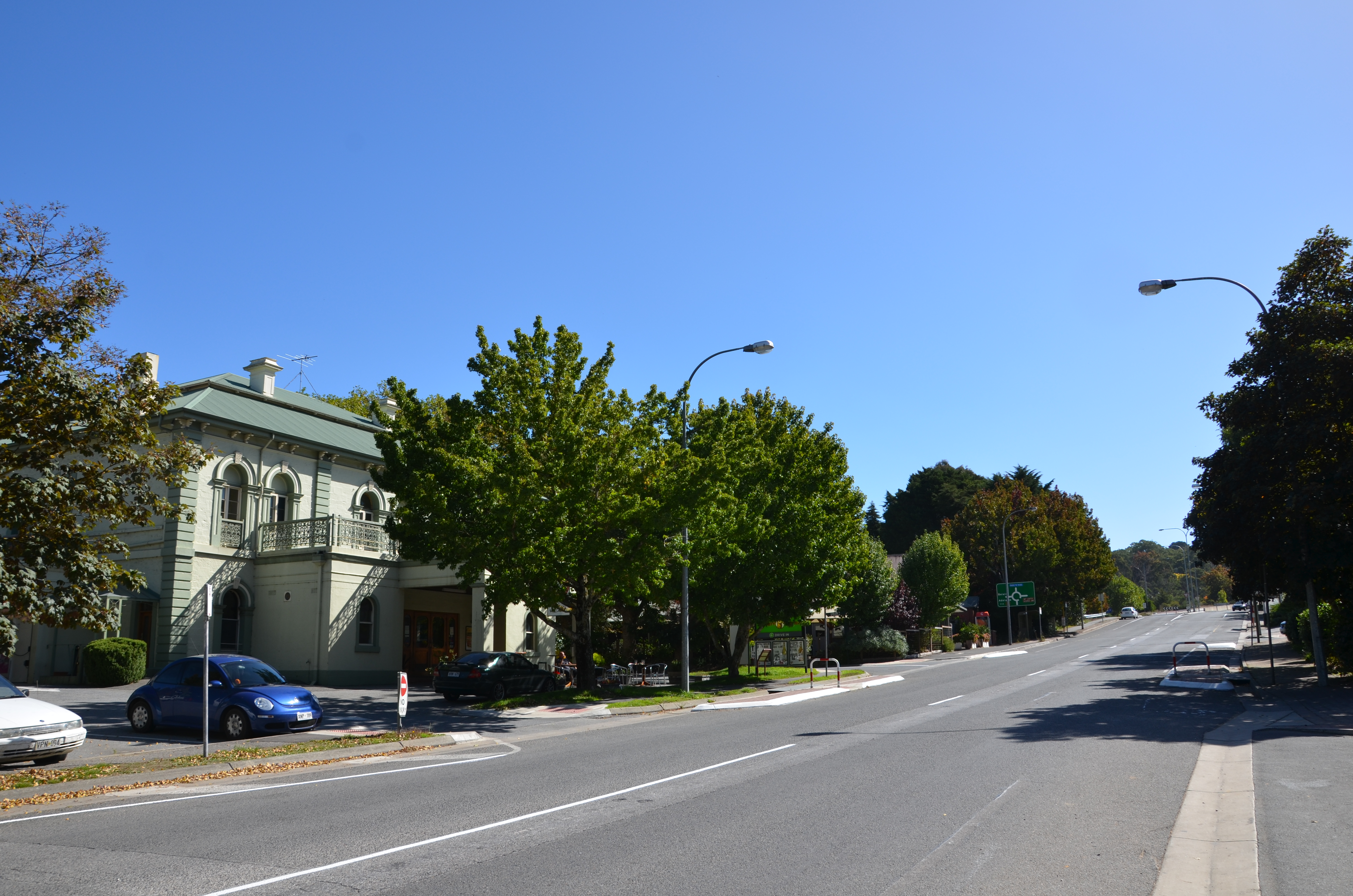 Main street of Crafers, South Australia. The Crafers Hotel is at left of frame.